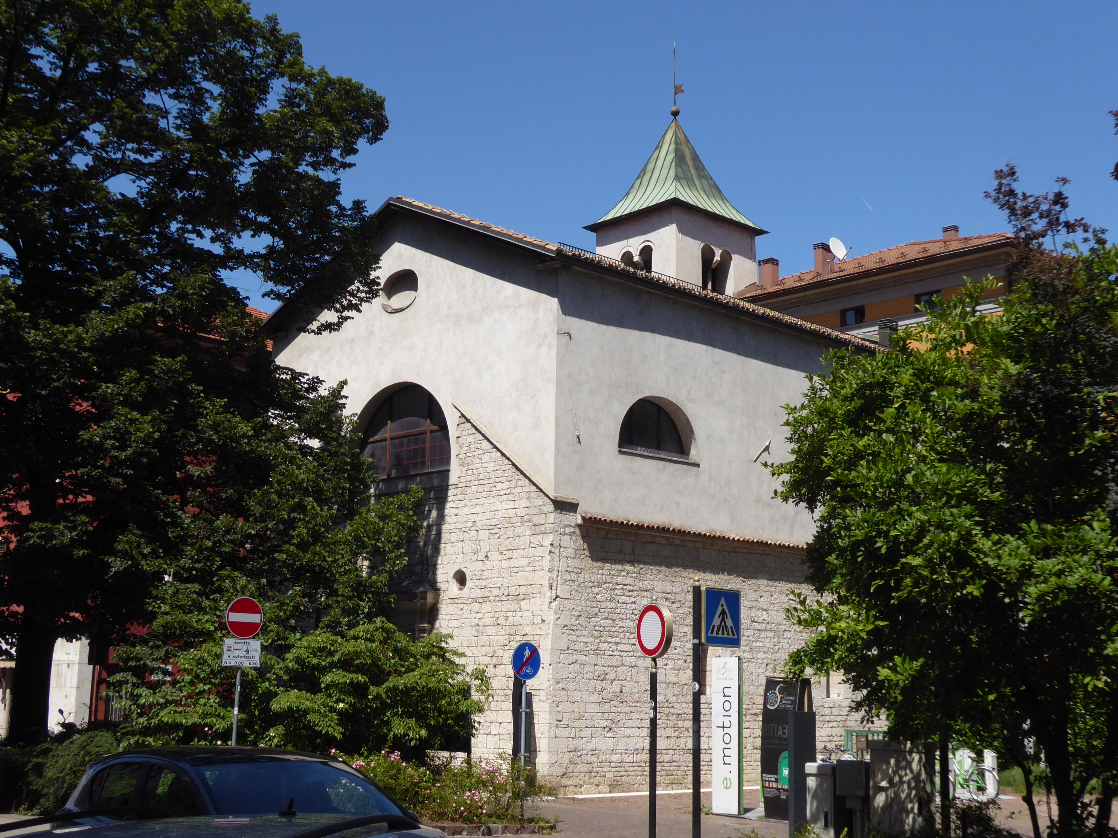 Trento (Italy) - Saint Clare church